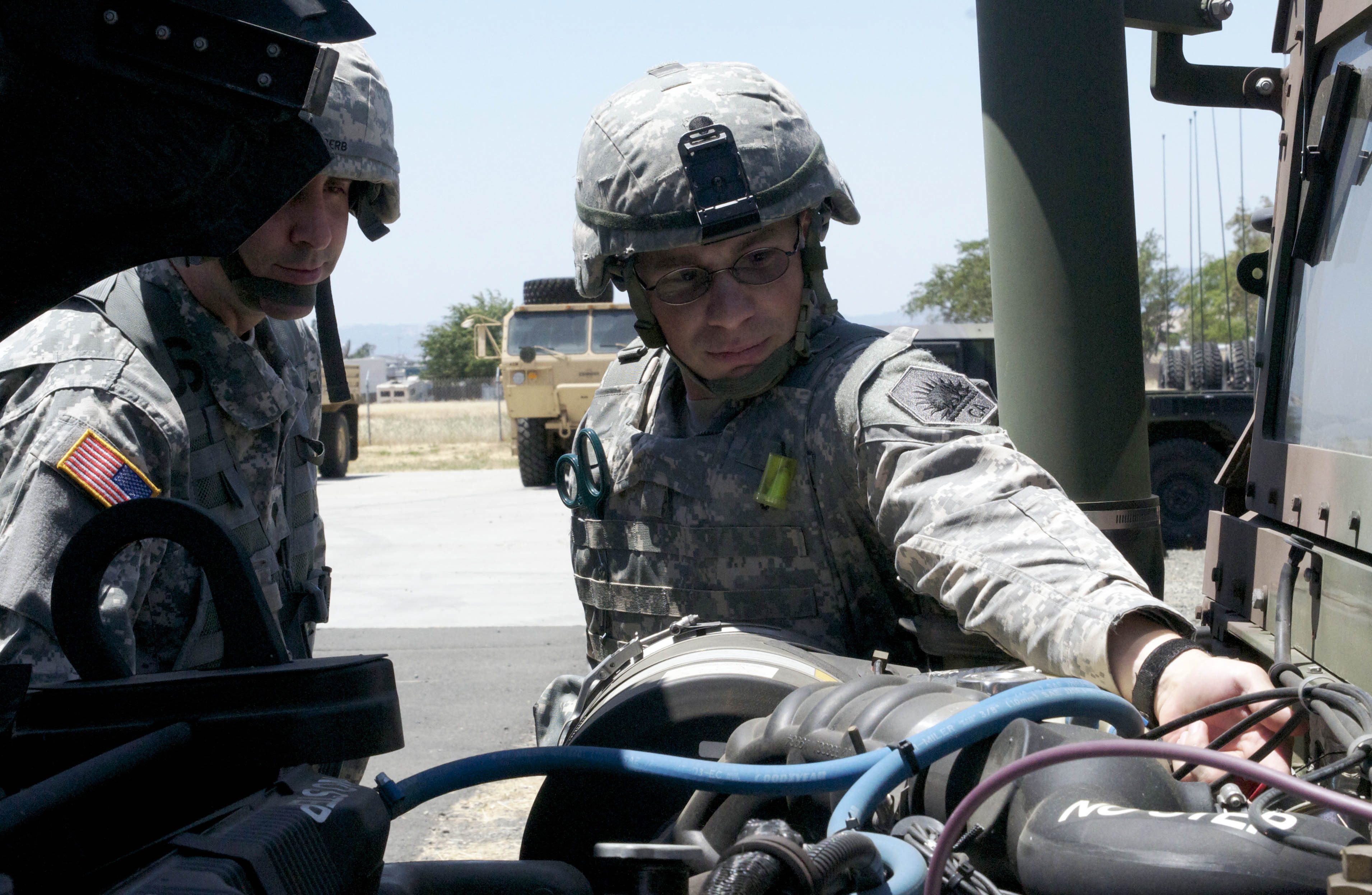 Spc. Joshua Zollo, a firefighter who serves with Alpha Company, 1st Special Troops Battalion, Regional Support Command North, California State Military Reserve, checks under the hood of a Humvee at the Sgt. 1st Class Isaac Lawson Memorial Armory in Fairfield, Calif., June 8. In his first 15 months of service, the 29-year-old has provided range support during weapons qualification at the CHP Academy, traveled to March Air Reserve Base in Southern California to work with the modular aerial firefighting system (MAFFS), and provided medical support to the 49th Military Police Brigade during their Homeland Response Force evaluation at Camp Roberts. (U.S. Army National Guard photo/Spc. Brianne M. Roudebush/Released)